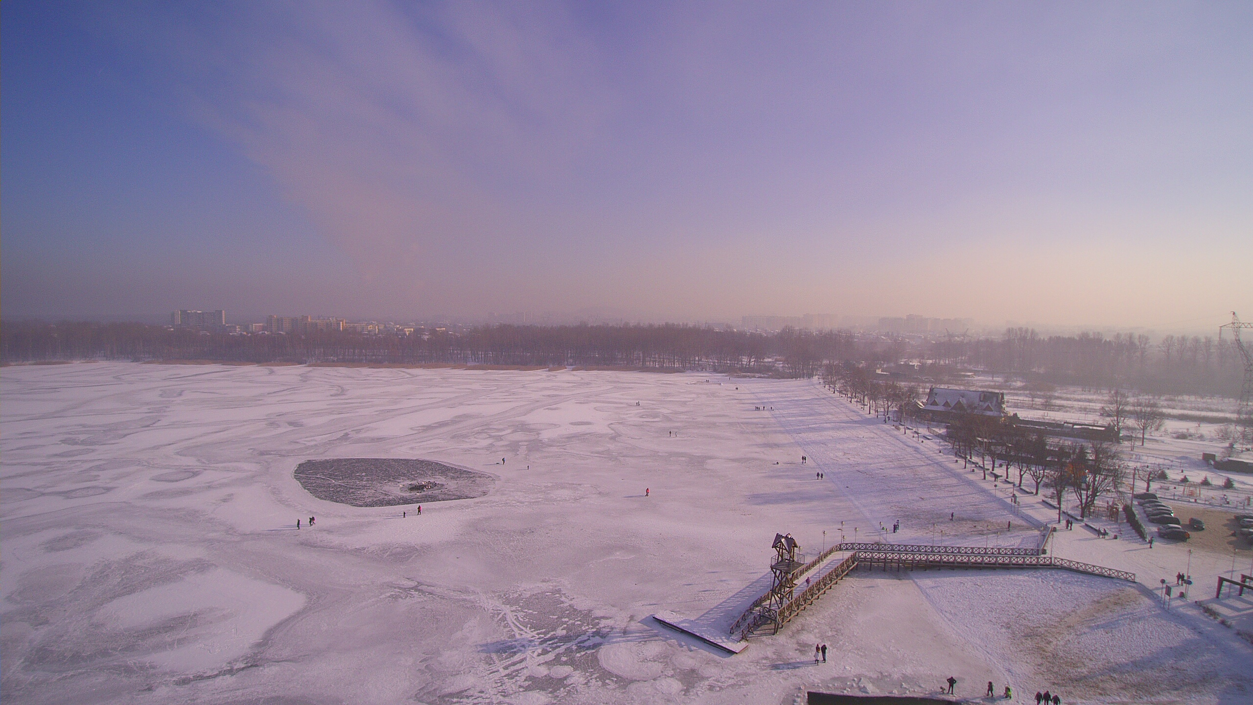 Lake Pogoria during winter time